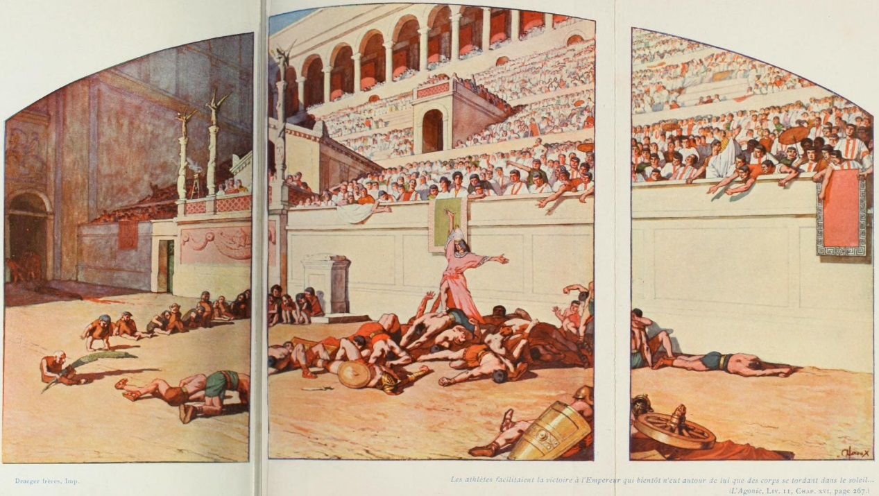 Illustration by A. Leroux